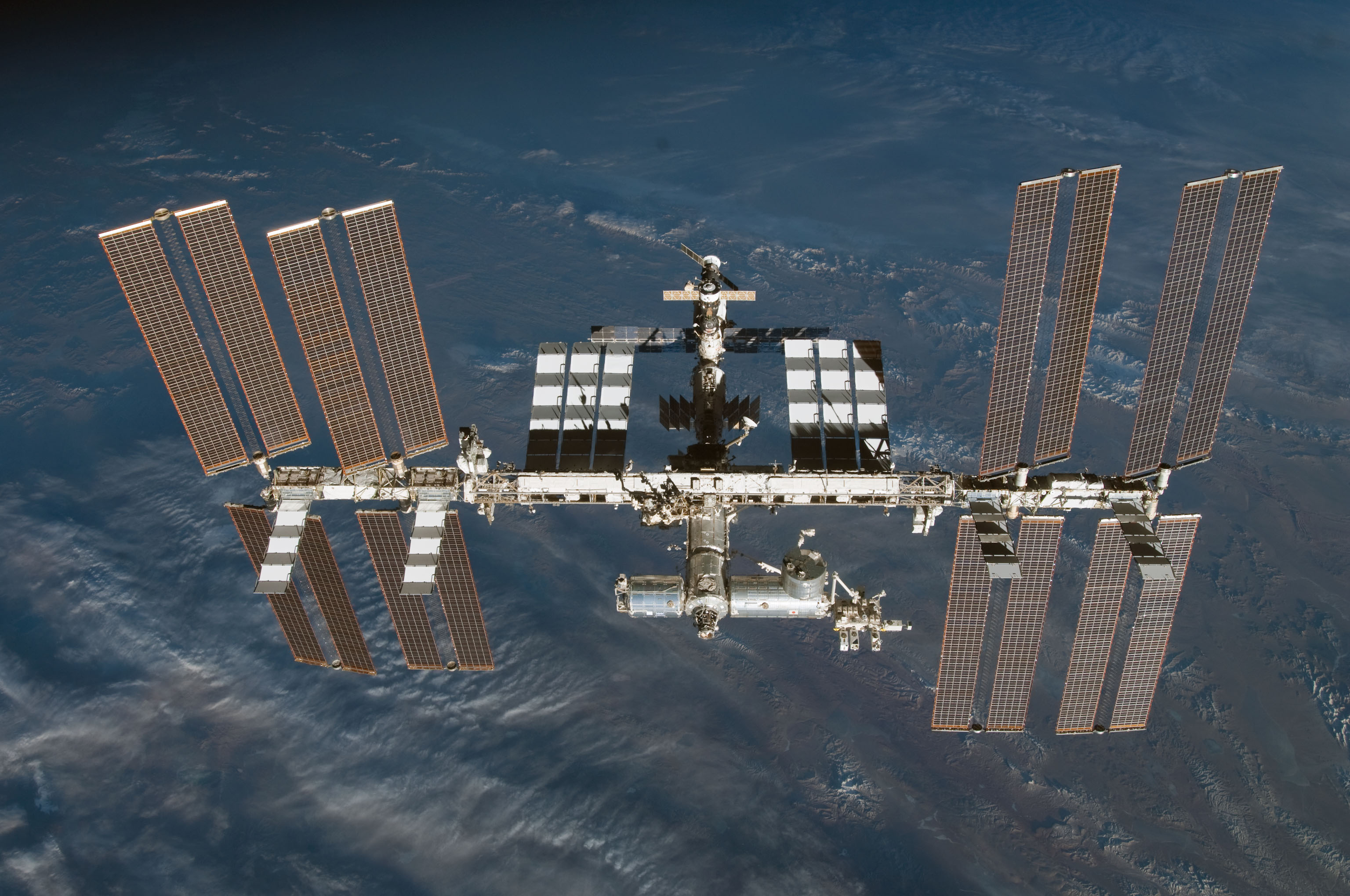 Backdropped by a colorful part of Earth, the International Space Station is featured in this image photographed by an STS-130 crew member on space shuttle Endeavour after the station and shuttle began their post-undocking relative separation. Undocking of the two spacecraft occurred at 7:54 p.m. (EST) on Feb. 19, 2010.